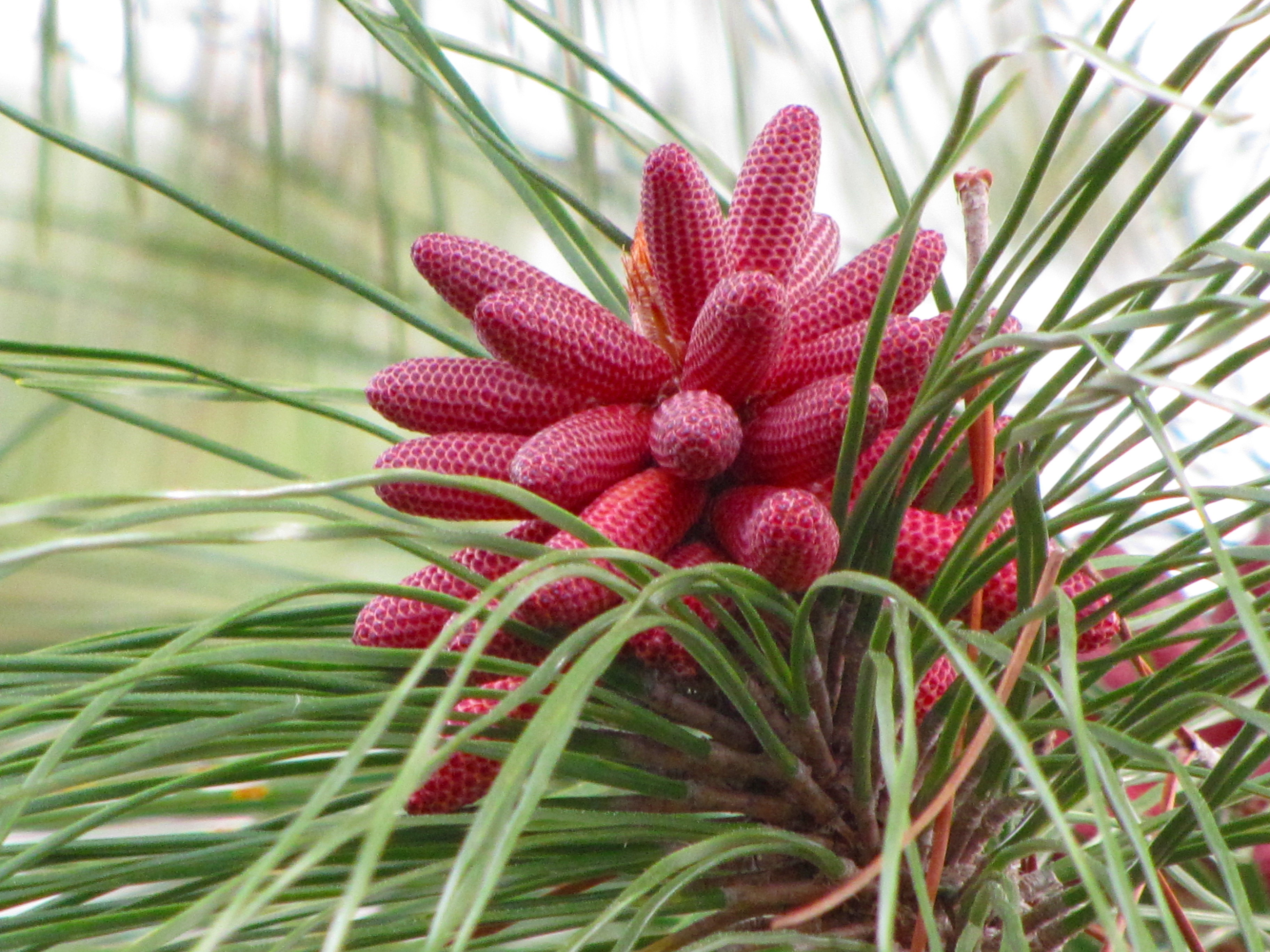 Pollen cones on a Slash Pine. Honeymoon Island State Park, Pinellas Co., Florida, USA.